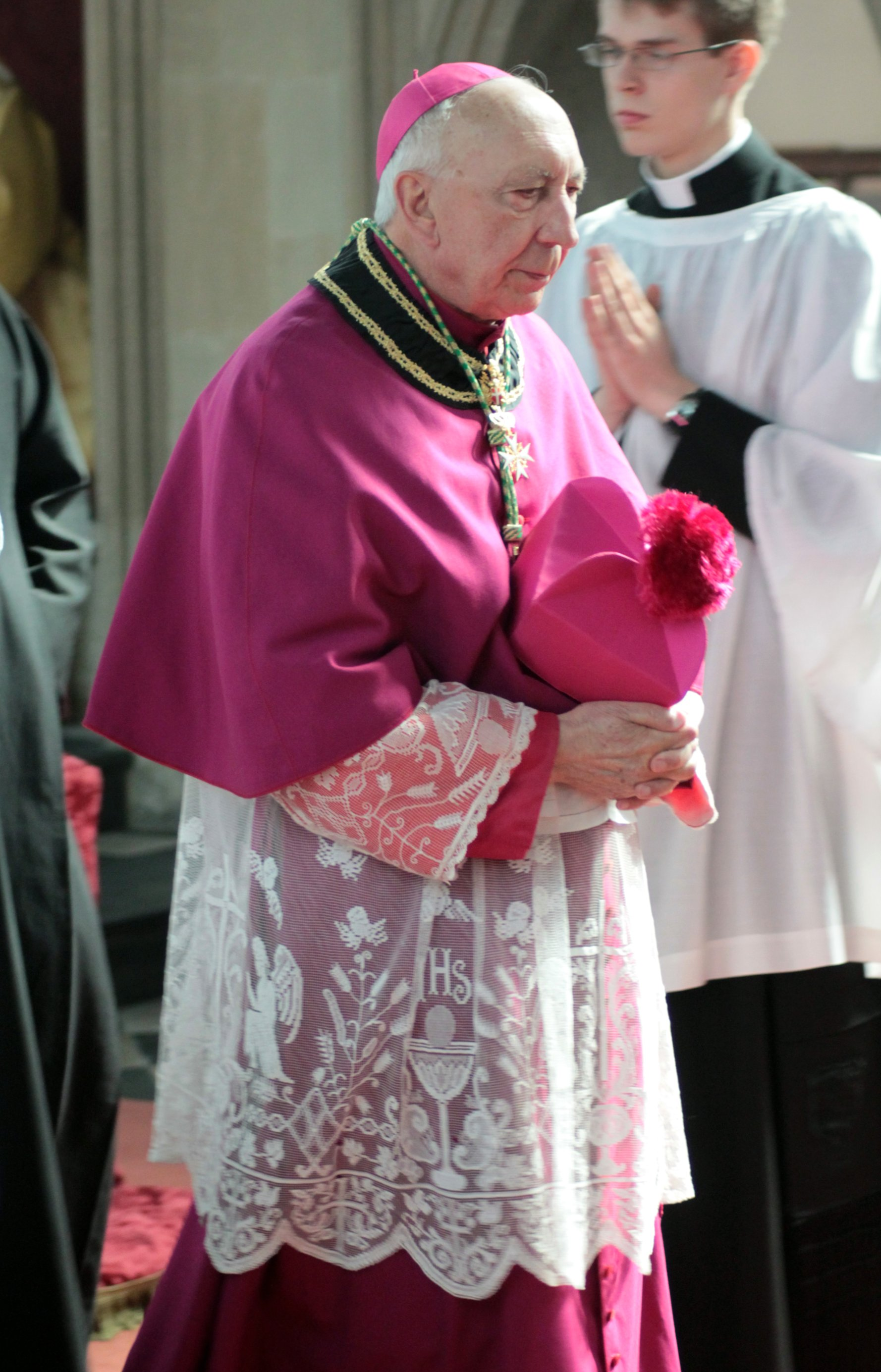 Archbishop Angelo Acerbi, Prelate of the Sovereign Military Order of Malta